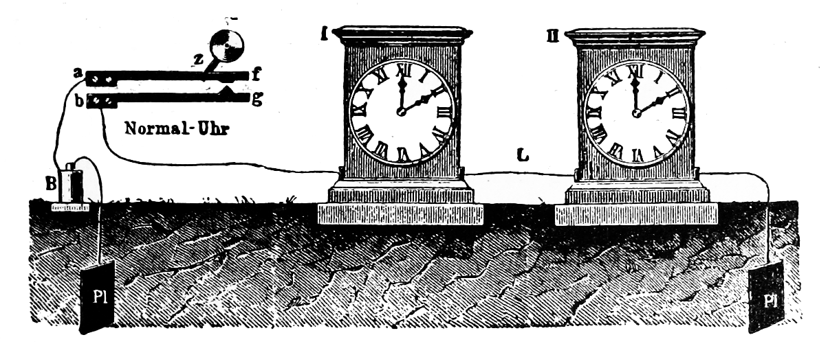 "Tidens naturlære" (Nature of time) 1903 by Poul la Cour, Ill. 30. Electical clocks. The book is digitized at Tidens Naturlære